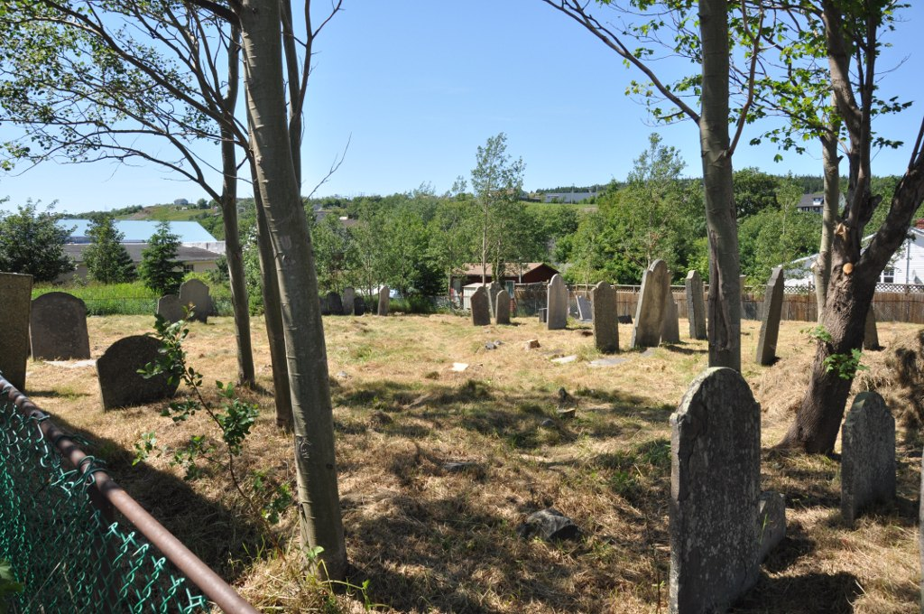 Roman Catholic Parish Cemetery, Harbour Grace, Newfoundland.